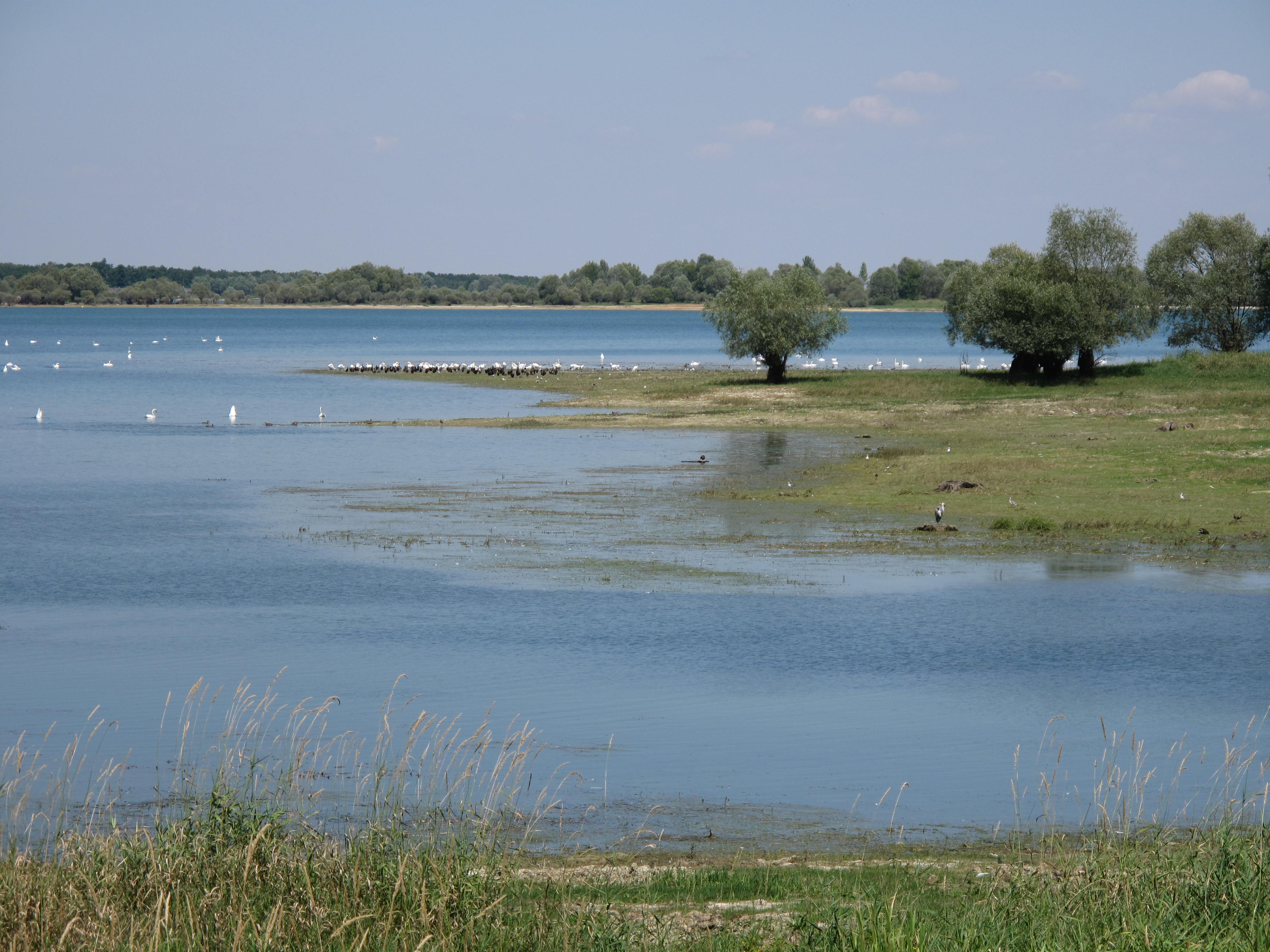 Birds seen from the observatory of Valois at the lake of Temple (Aube, France).